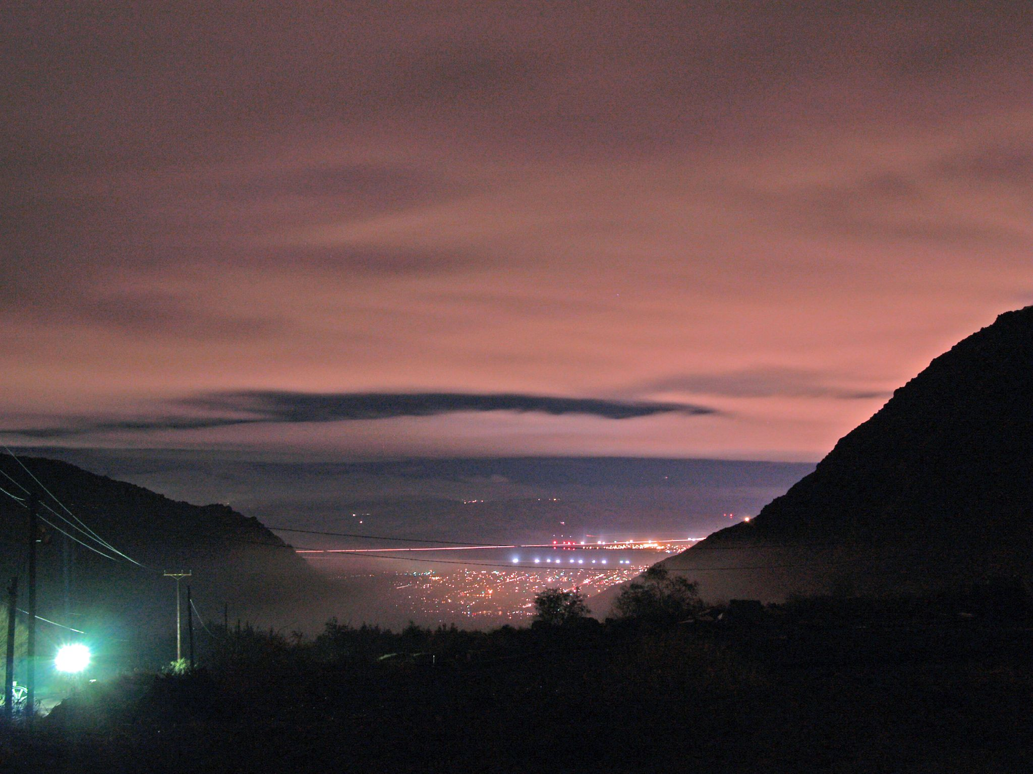 Taken from the lower parking lots at the Palm Springs Aerial Tramway between rain showers. Tramway road is to the left. Interstate 10 is off in the distance.